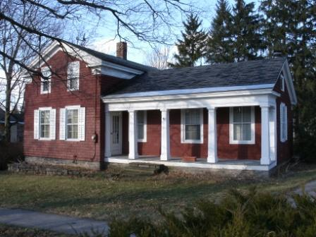 311 Pleasant Street, a Greek Revival house, in village of Manlius, New York. A contributing property in Manlius Village Historic District.